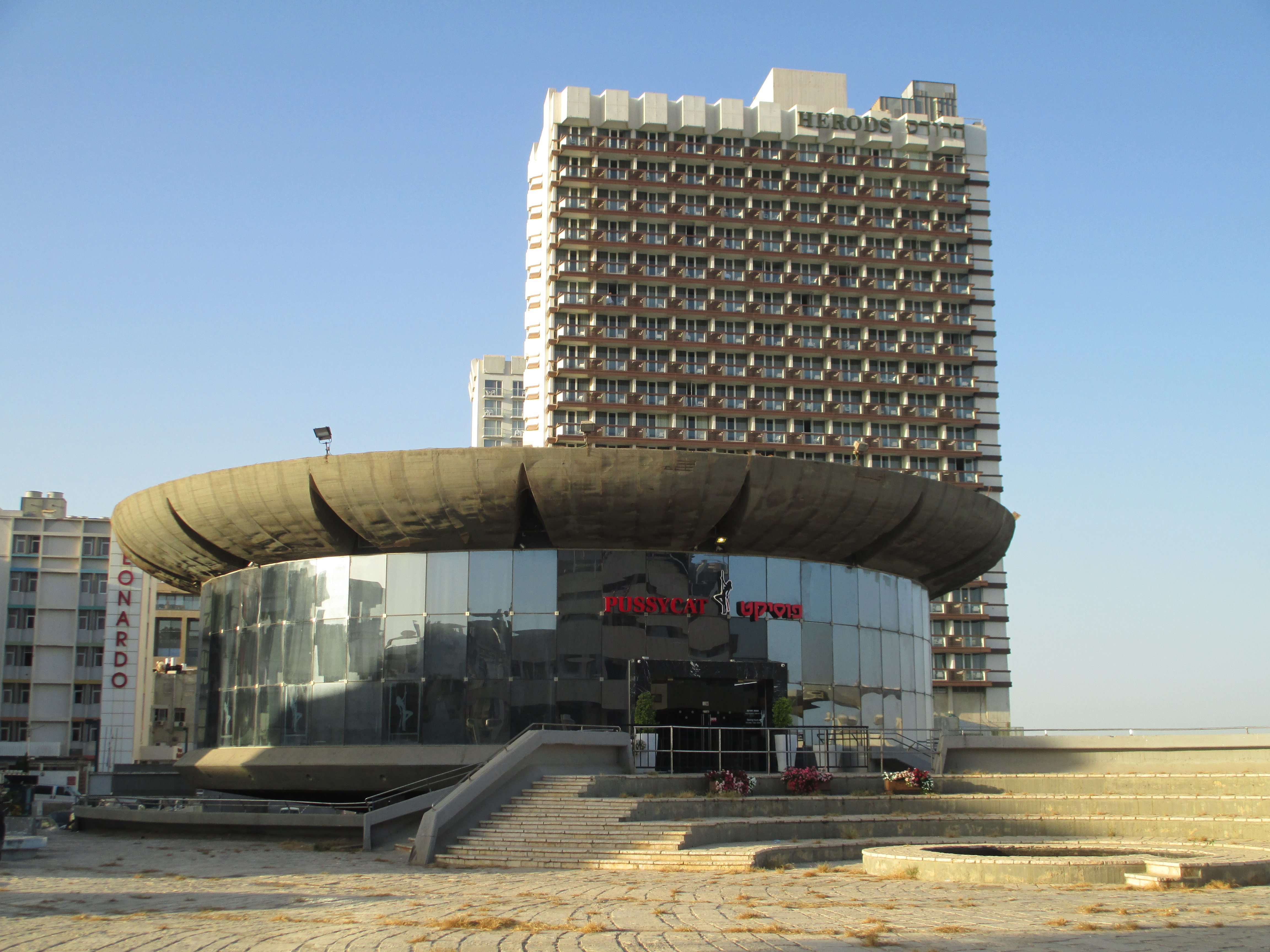 Atarim square